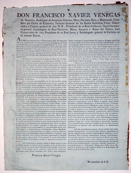 A Nahuatl-language propaganda broadside printed during the Hidalgo revolt.